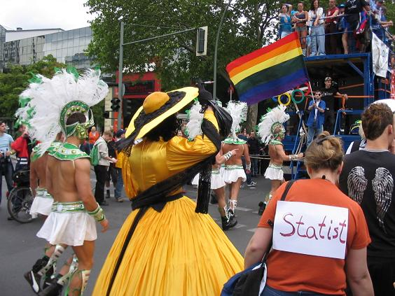 The Cristopher Street Day in Berlin